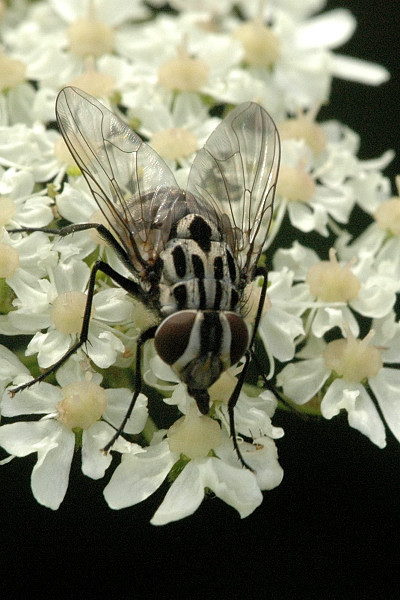 Picture taken in Commanster, Belgian High Ardennes . Species: female Graphomya maculata